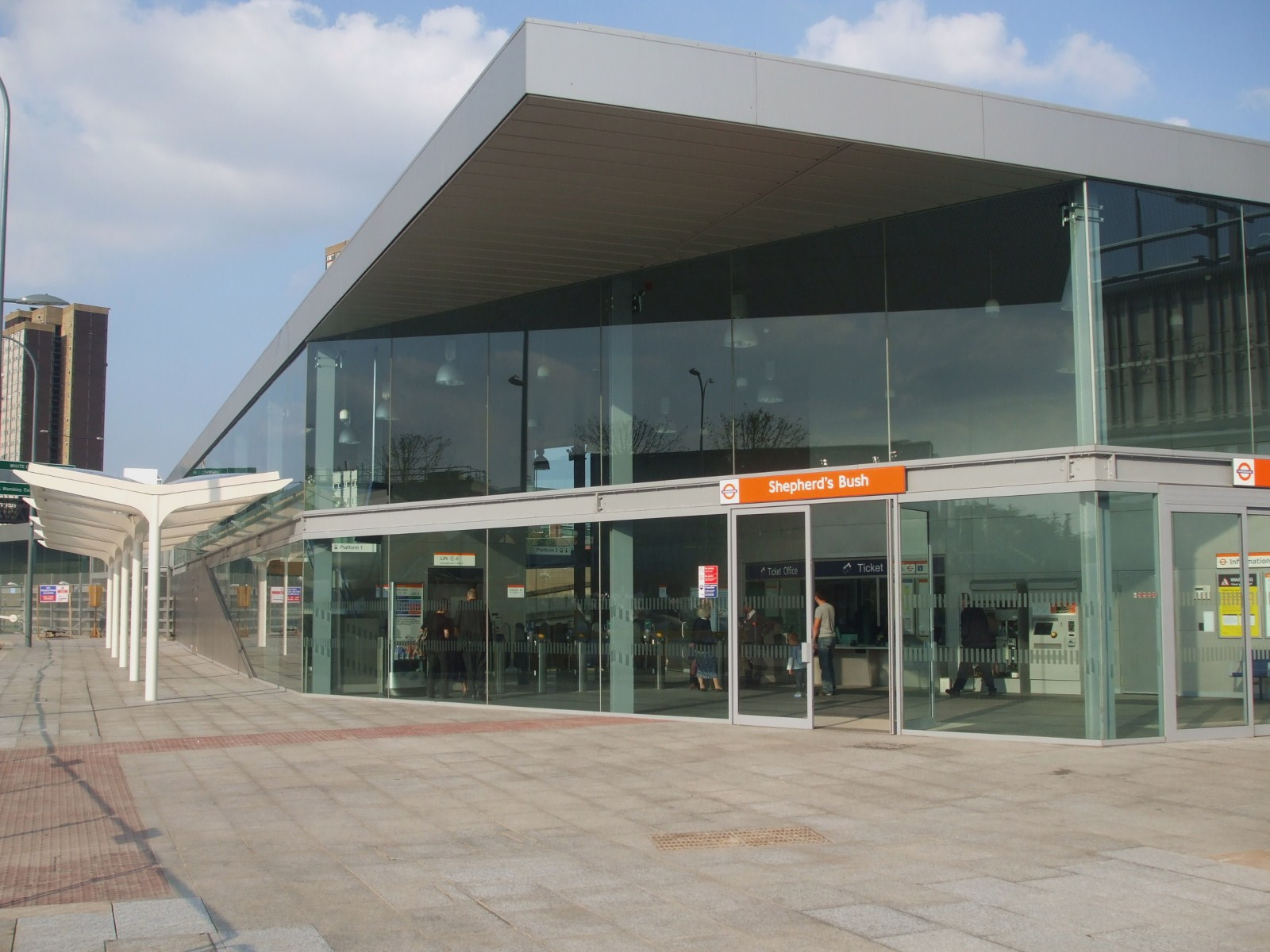 Shepherd's Bush Overground station entrance. The station opened after much delay on 28th September 2008.